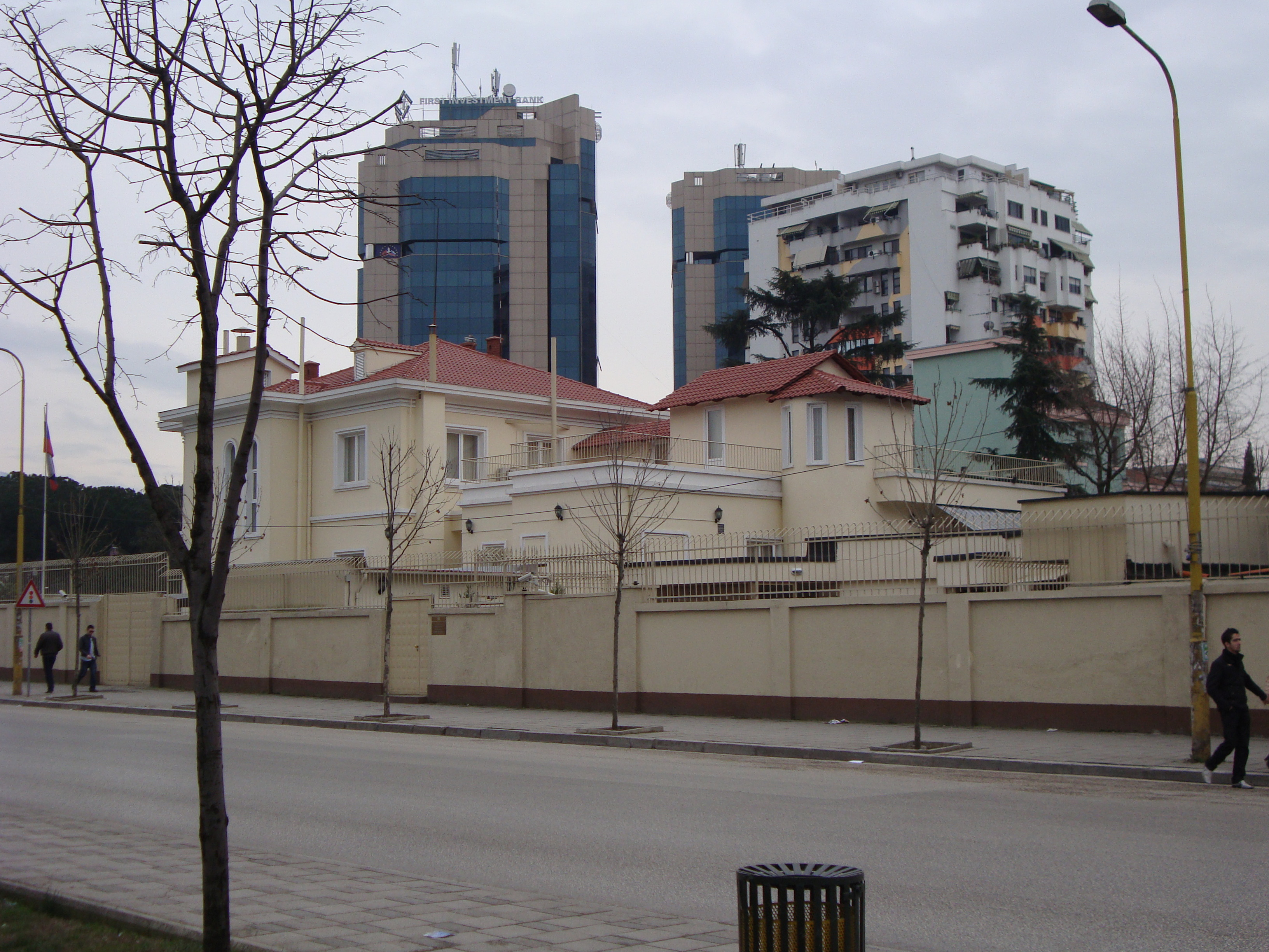 Embassy of Russia in TiranaShqip: Ambasada e Rusisë